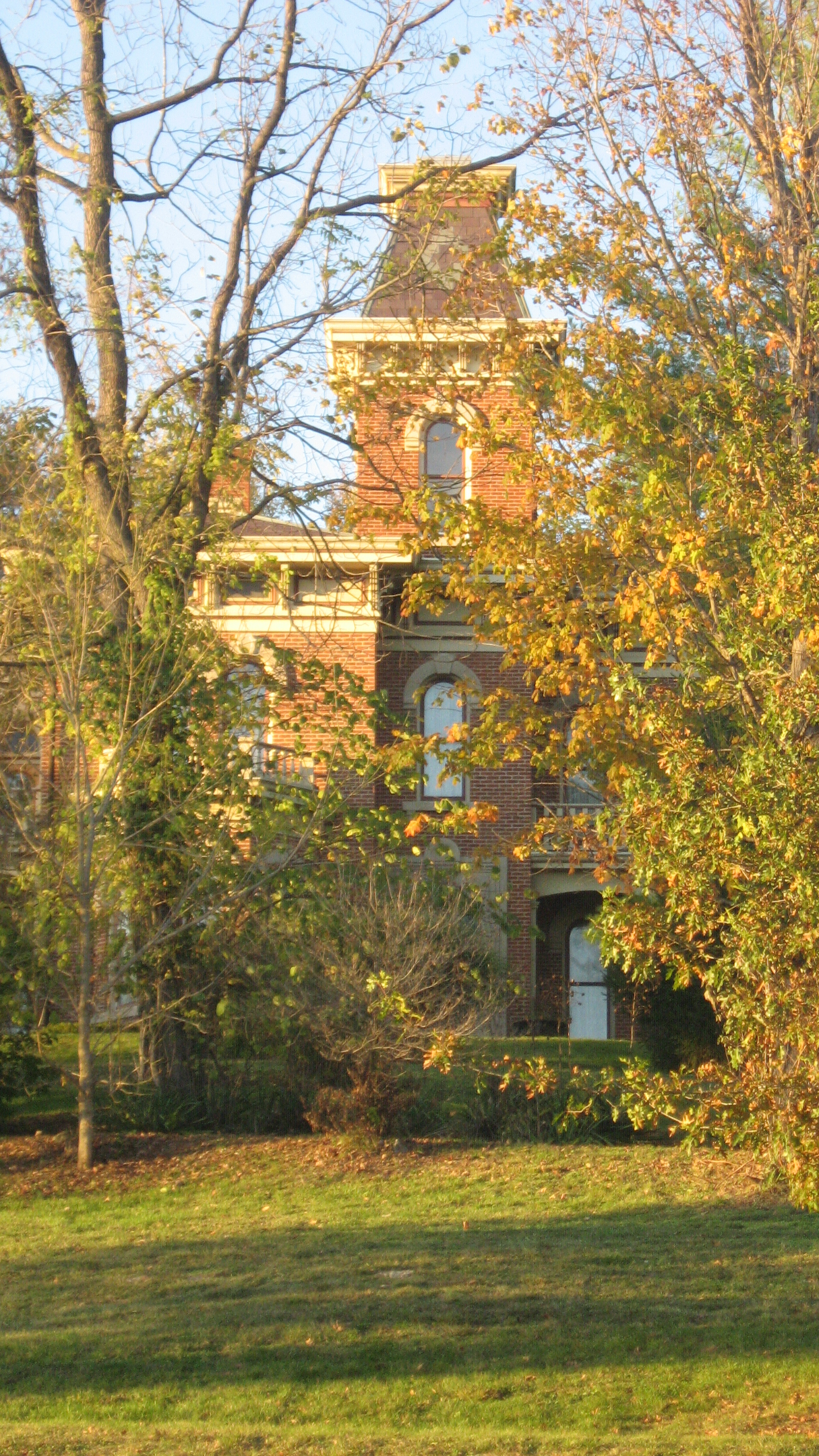 View through trees of the David Enoch Beem House, located at 635 W. Hillside Avenue in Spencer, Indiana, United States. Built in 1874, it is listed on the National Register of Historic Places.